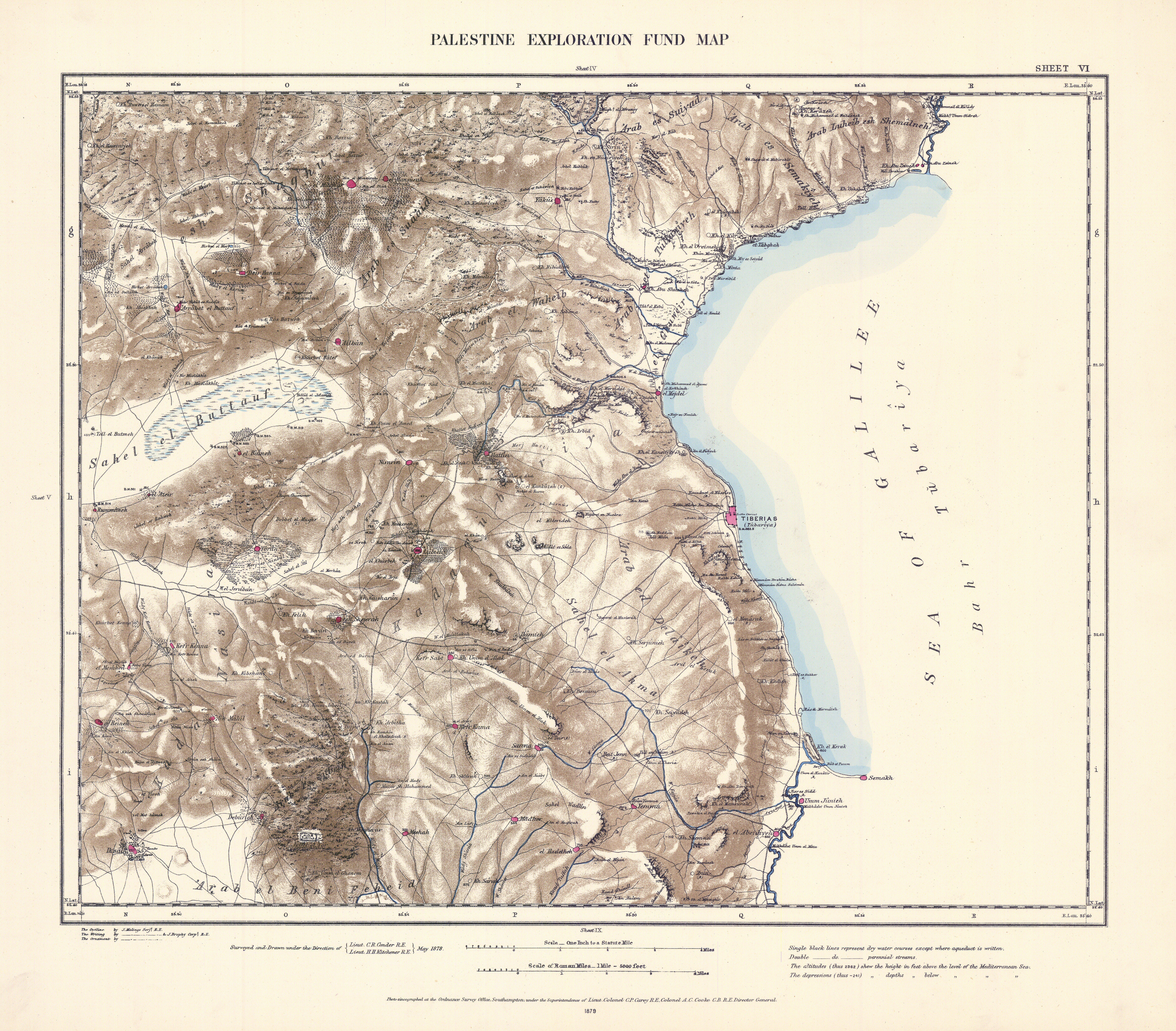 Map of Western Palestine in 26 sheets from the surveys conducted for the Committee of the Palestine Exploration Fund by Lietenanats C.R. Conder and H.H. Kitchener R.E. during the years 1872-1877. Photozincographed and Printed for the Committee ...at the Ordnance Survey Office Southampton. OCLC 234168442. Note I: Marked as copyrighted by Jewish National & University Library, which is not grounded. Note II: This is a collection 72dpi images. For the map in higher resolution, check either David Rumsey Map Collection, Israel Antiquities Authority, The Digital Archaeological Atlas of the Holy Land, Amud Anan (Hebrew), or a CD from BiblePlaces.